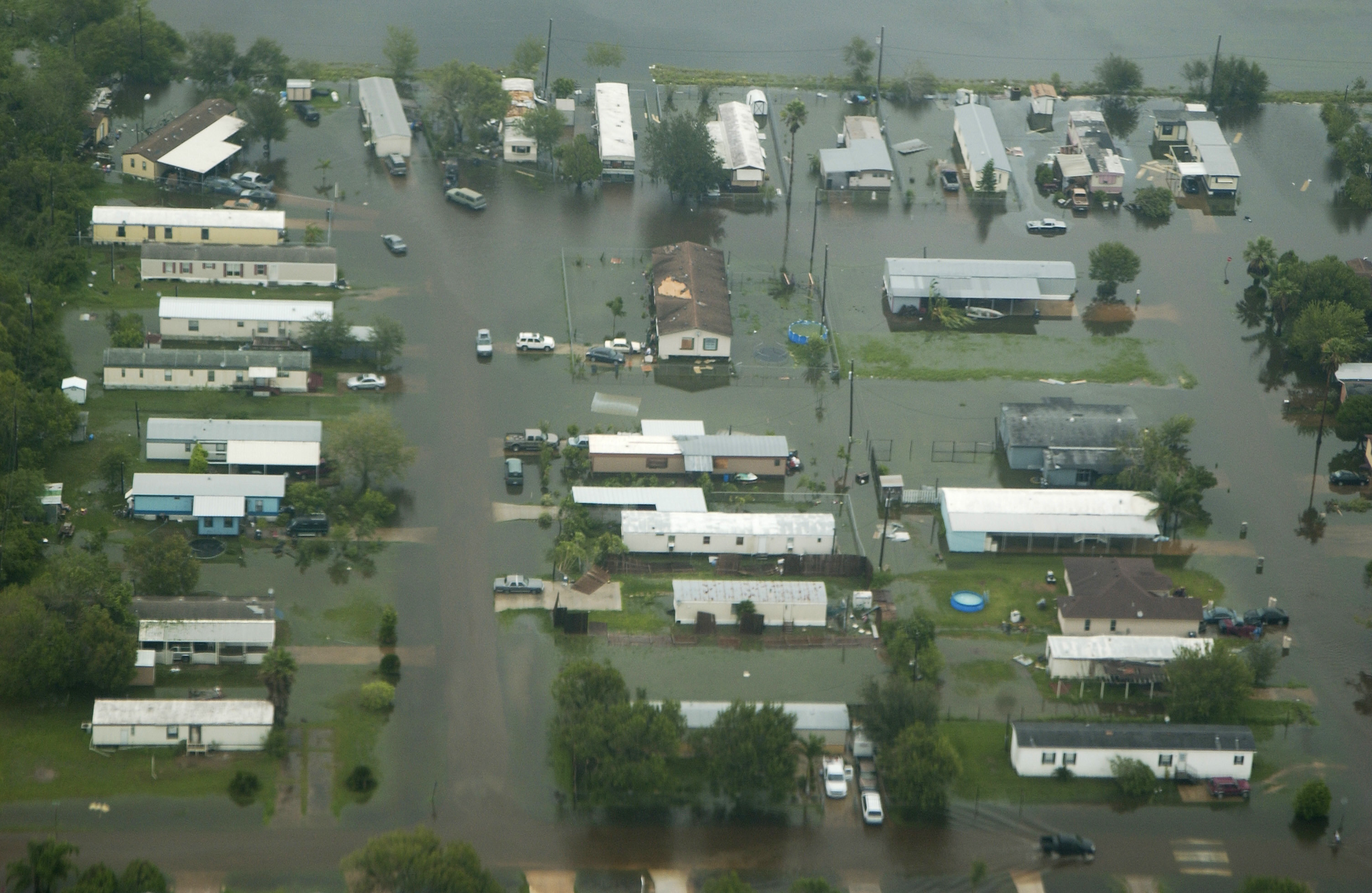 Air Station Corpus Christi Falcon over-flight post Hurricane Dolly (FOR RELEASE) In this photo by the U.S. Coast Guard, the crew of an HU-25 Falcon jet from Air Station Corpus Christi, Texas, navigates an over-flight of southern Texas, Thursday, July 24, 2008, to determine damage left in the wake of Hurricane Dolly.